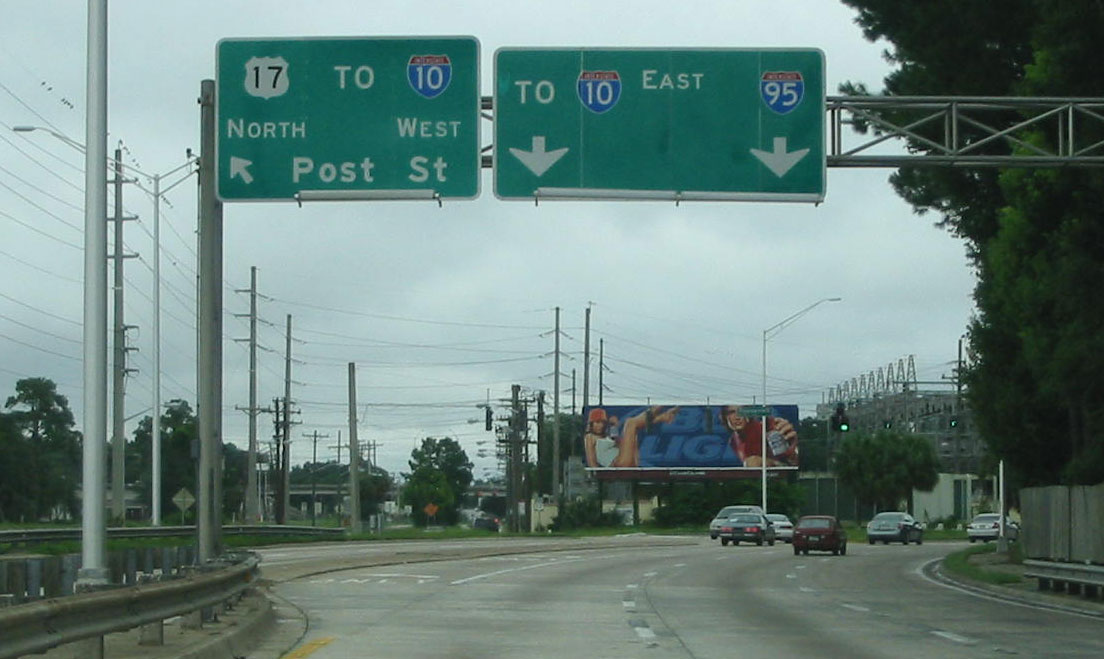 US 17 north at unsigned US 17 Alternate in Jacksonville, Florida. Taken August 10, 2003 by SPUI.